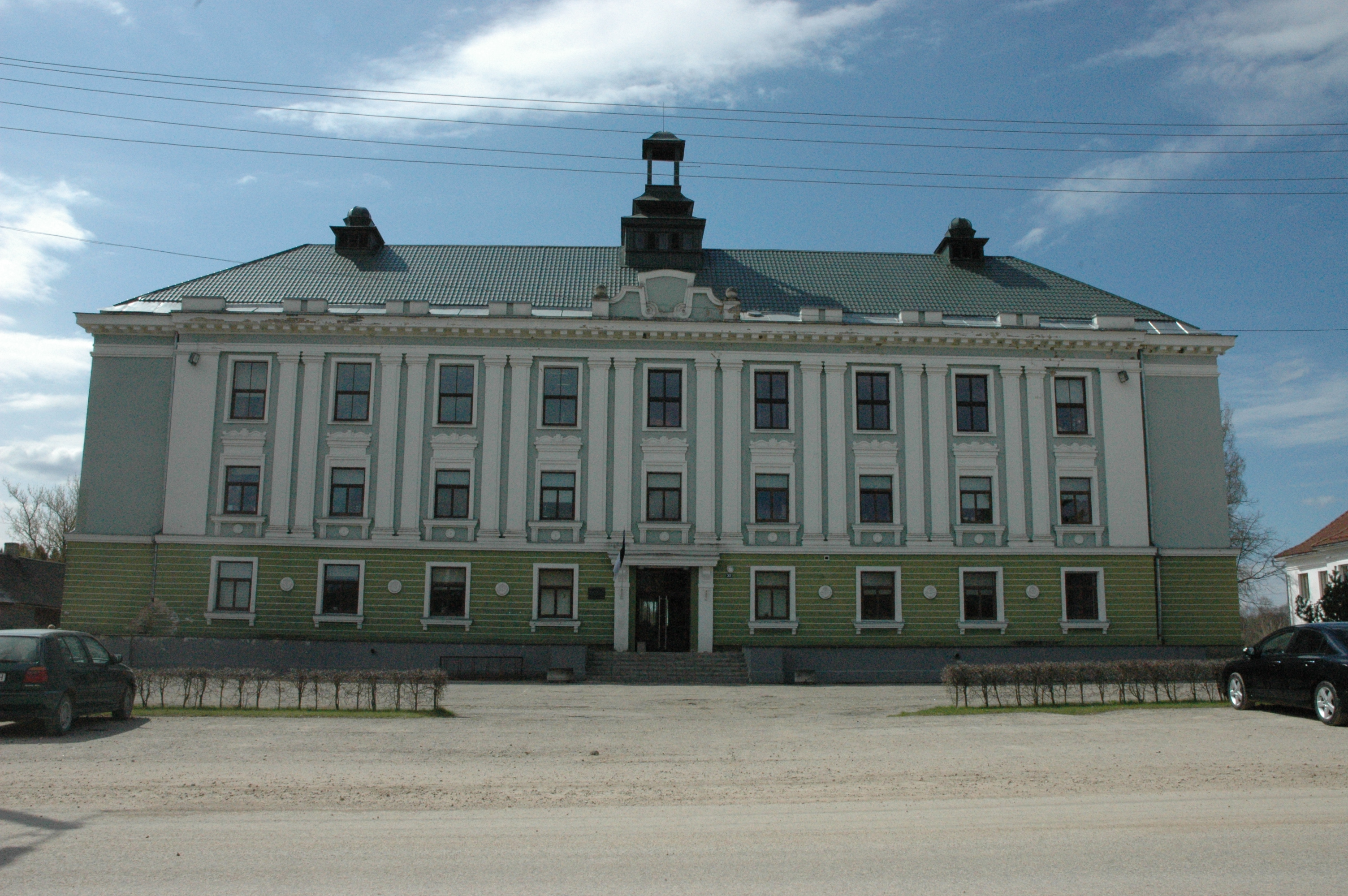 School in Vastseliina, Estonia.